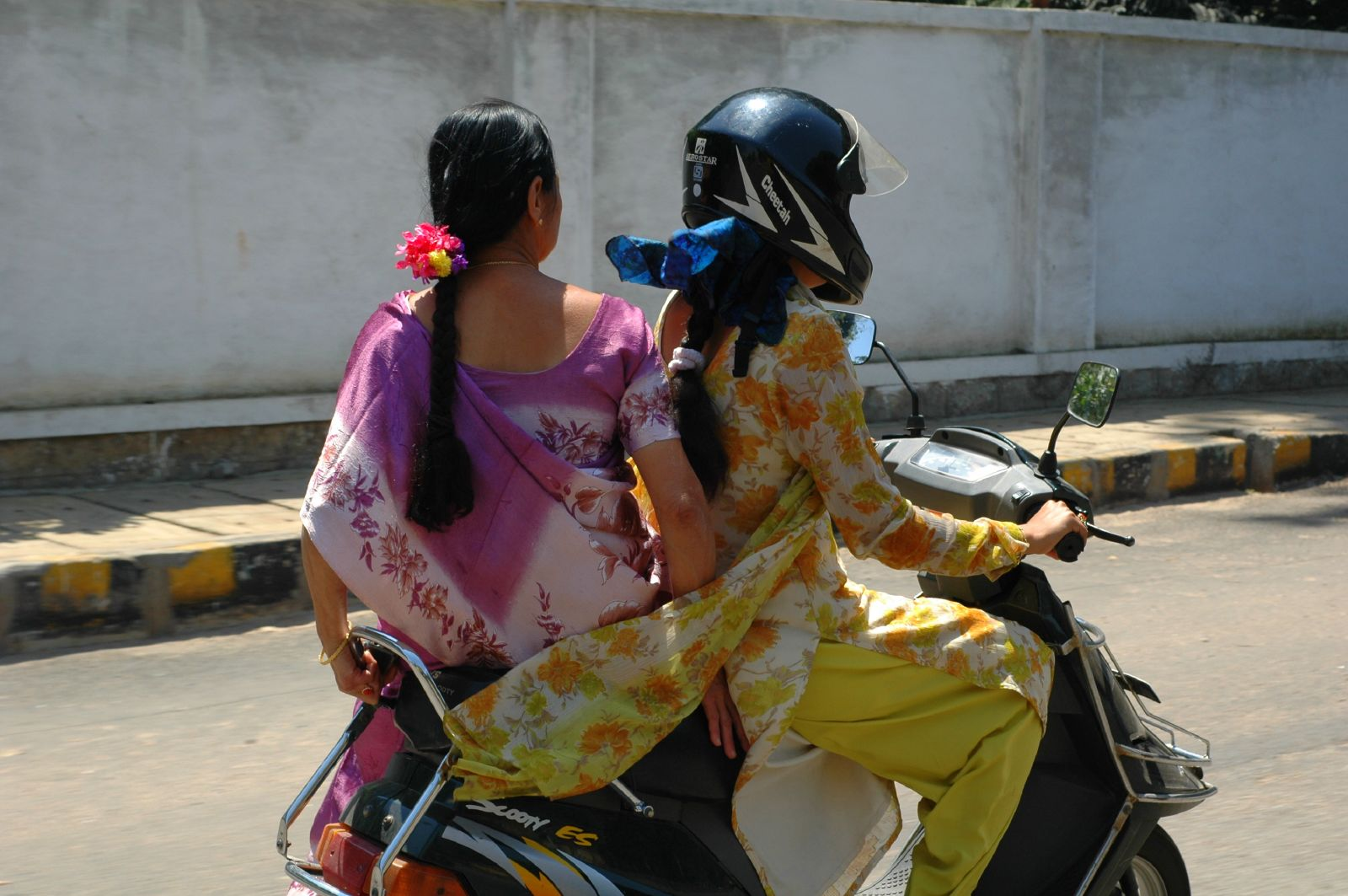 2 ladies on a TVS Scooty ES in Bangalore, India